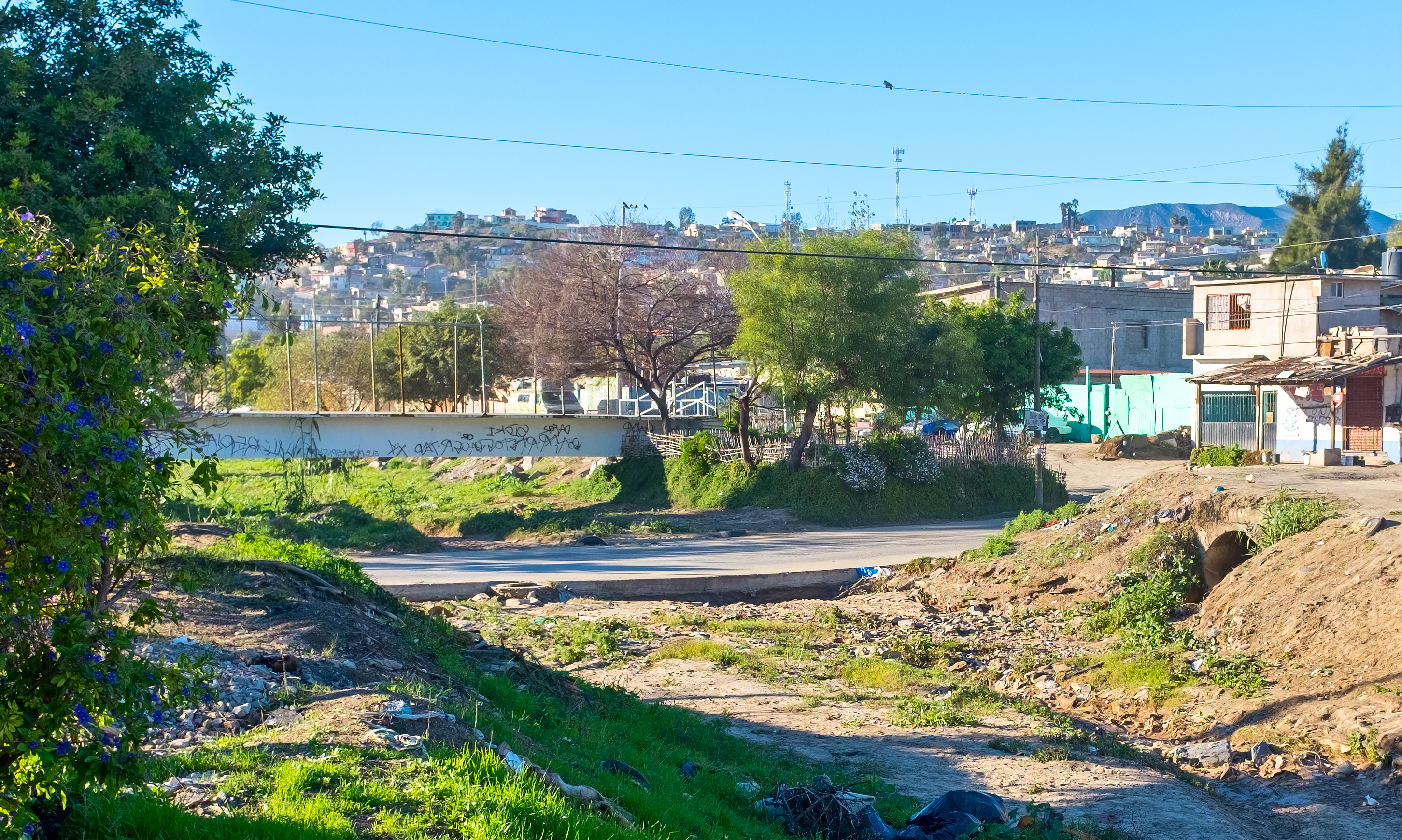 A floodway in Ensenada, BC Mexico